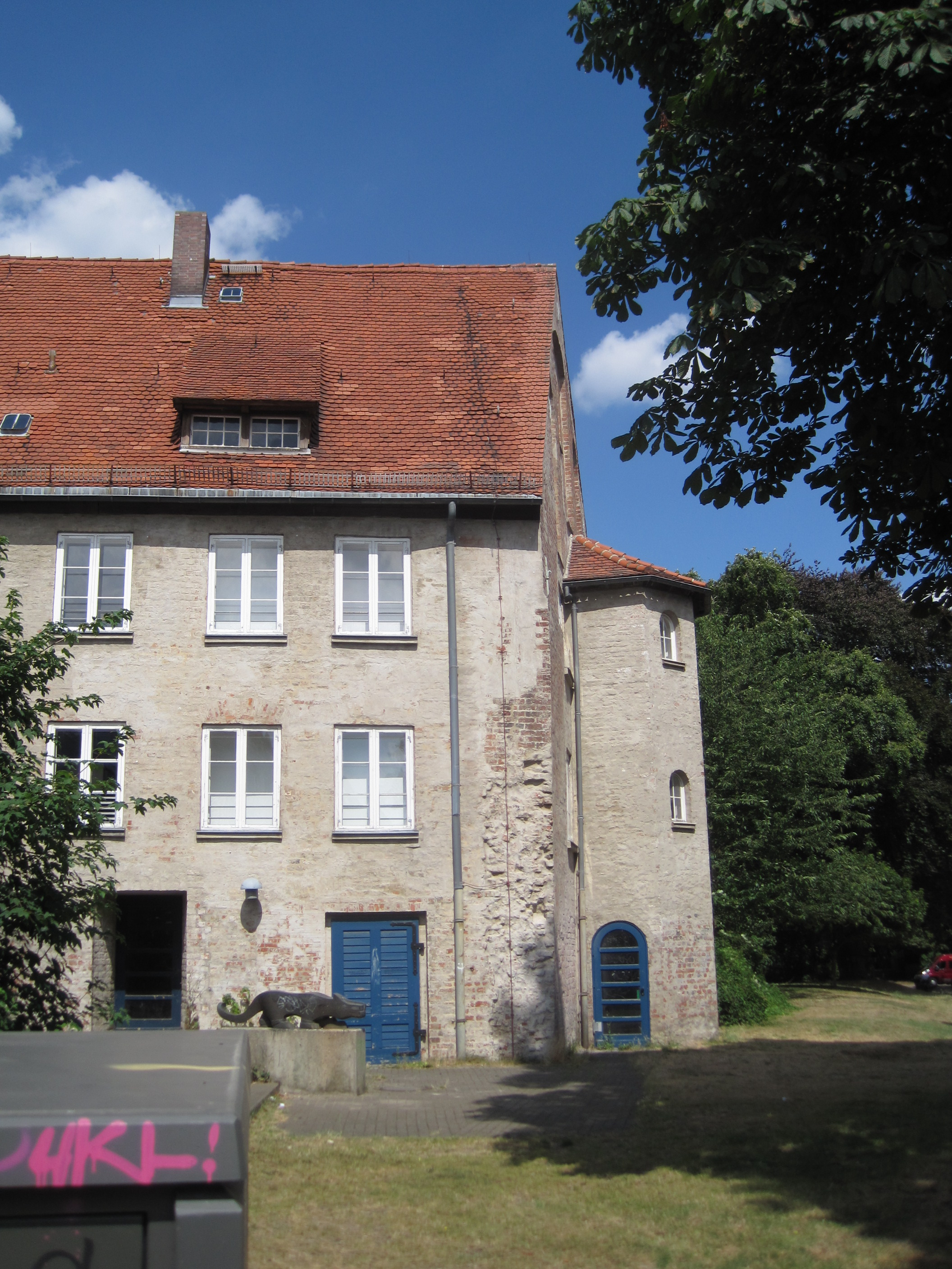 Brick Gothic refectory of St. Johannis monastery in Lübeck used by the Johanneum zu Lübeck